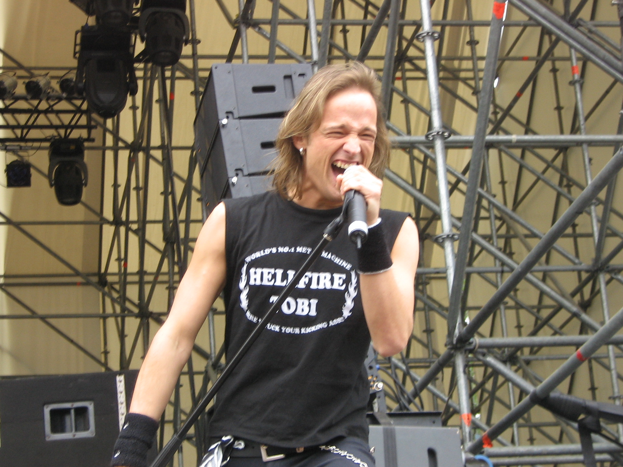 Tobias Sammet of Edguy at the Gods of Metal Festival 2006.